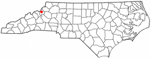 Category:North Carolina Dot Maps